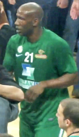 Player for the Greens in the 2012/13 season. Image extracted from my video taken at the championship match.